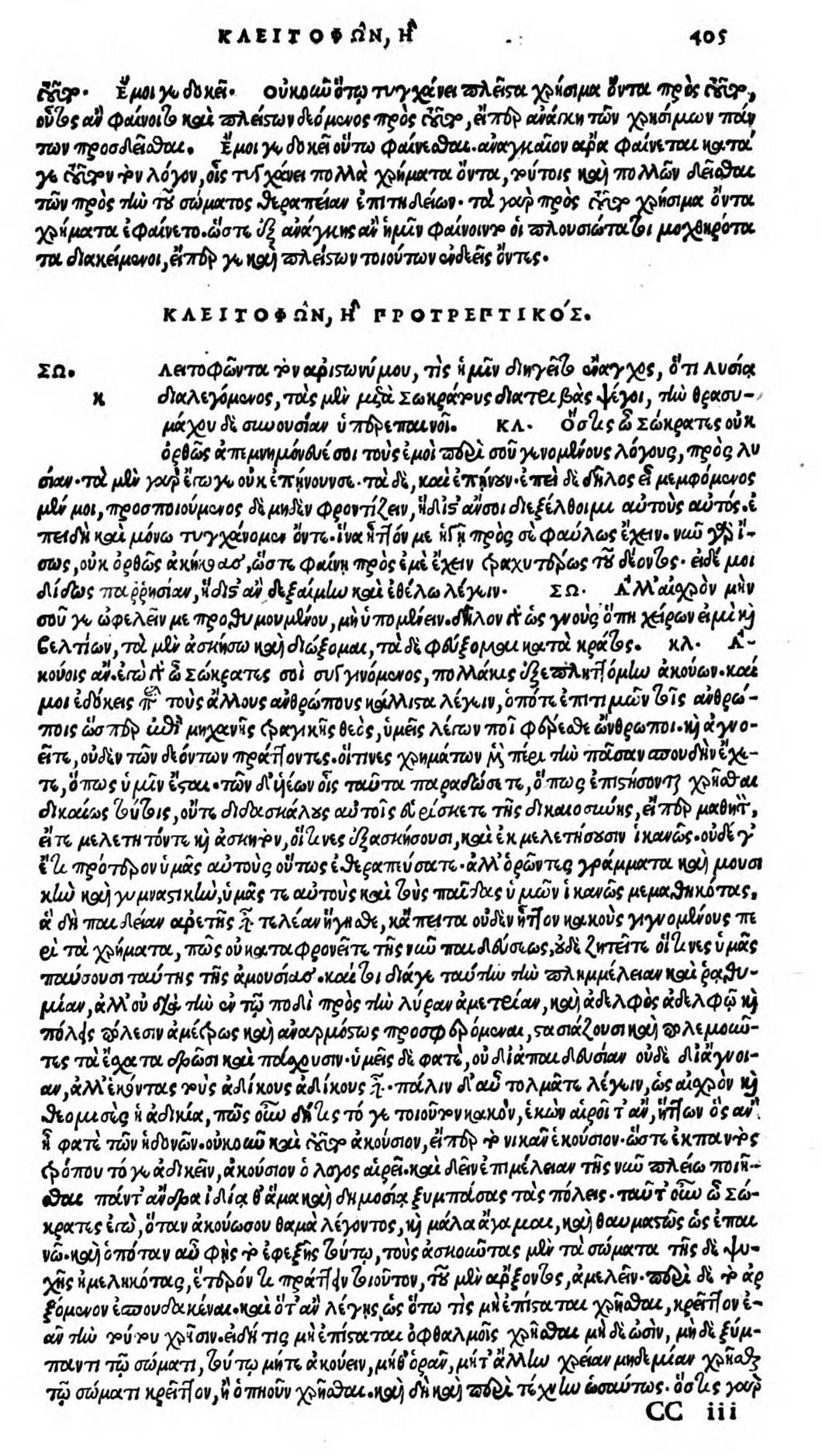 Kleitophon beginning. Editio princeps, Venice 1513.